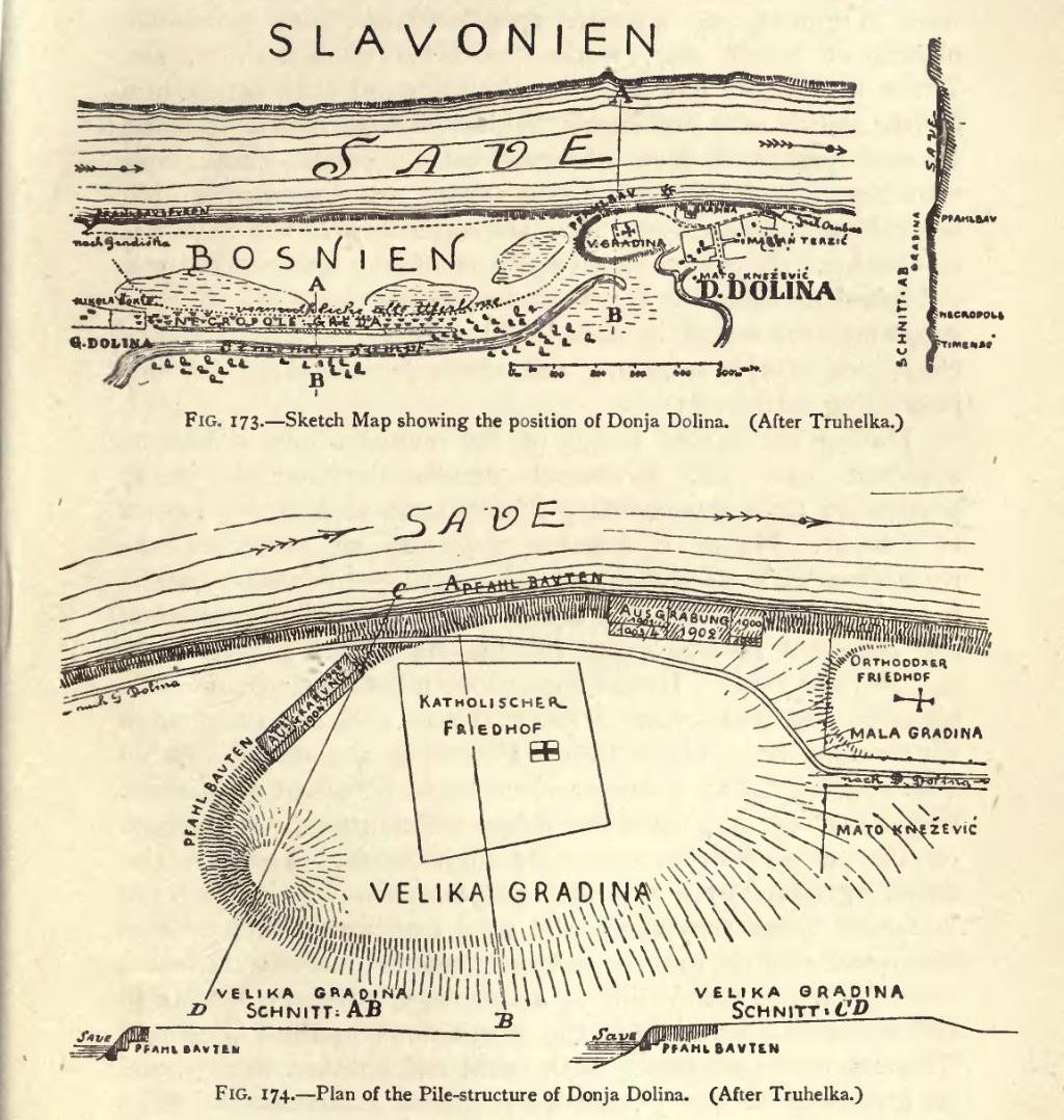 Figure(s): 173